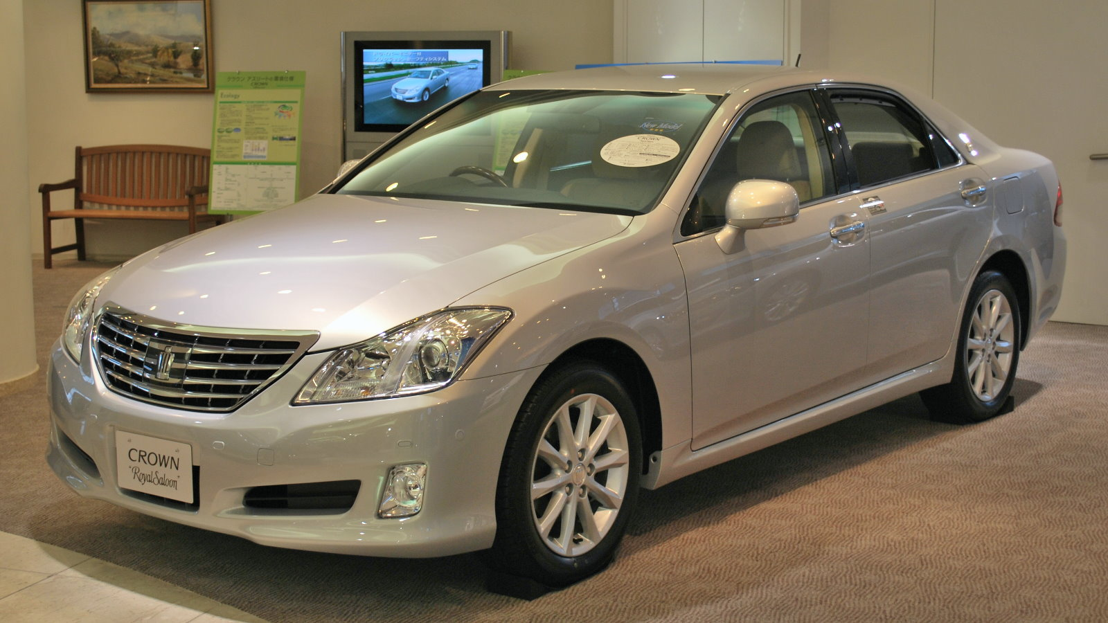 Toyota_Crown_S200